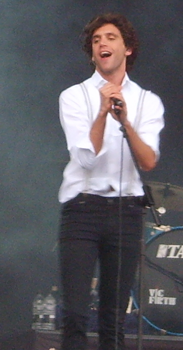 I am the author, Seraphim Whipp, and would like to be attributed as so.